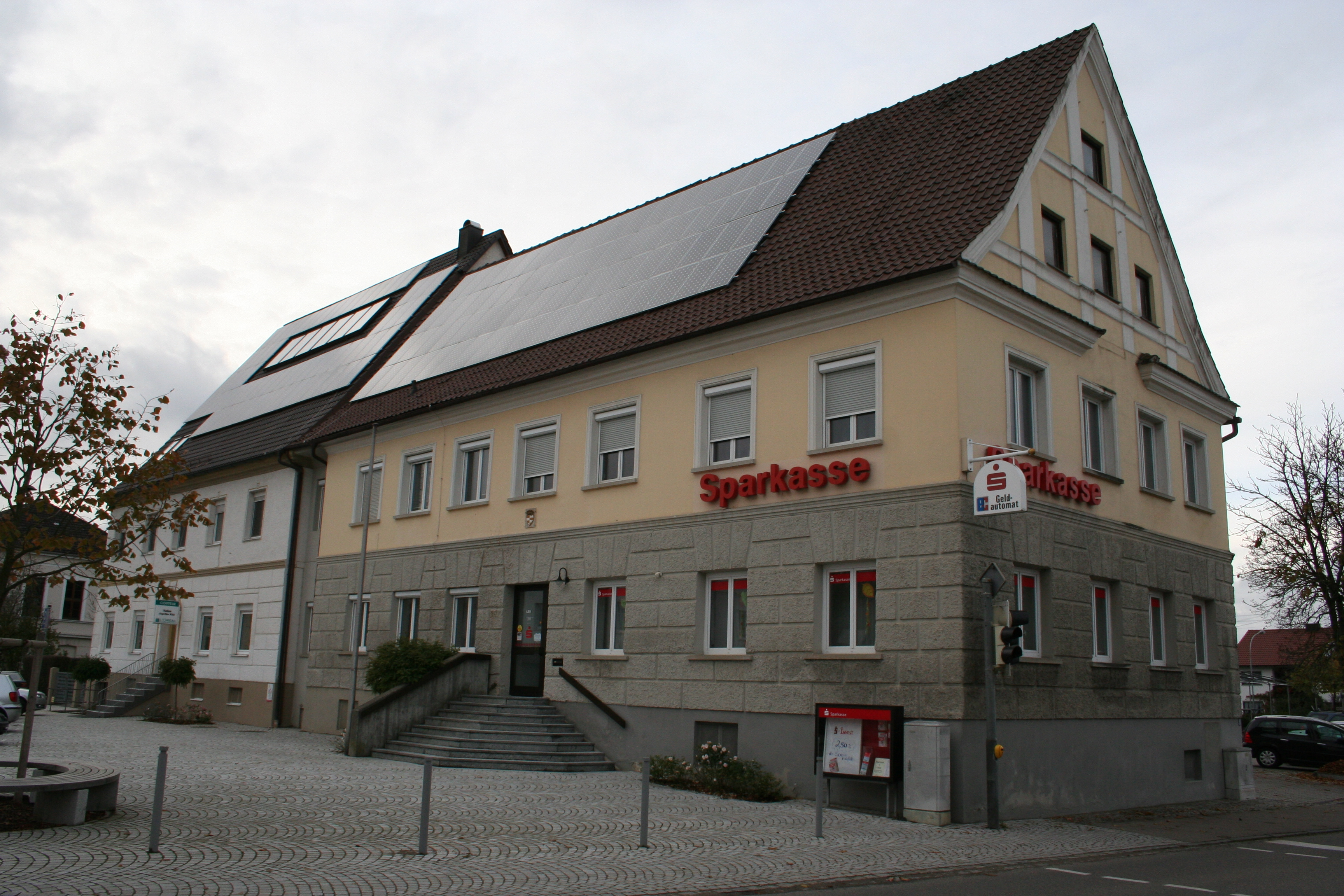 former town hall of Niederraunau